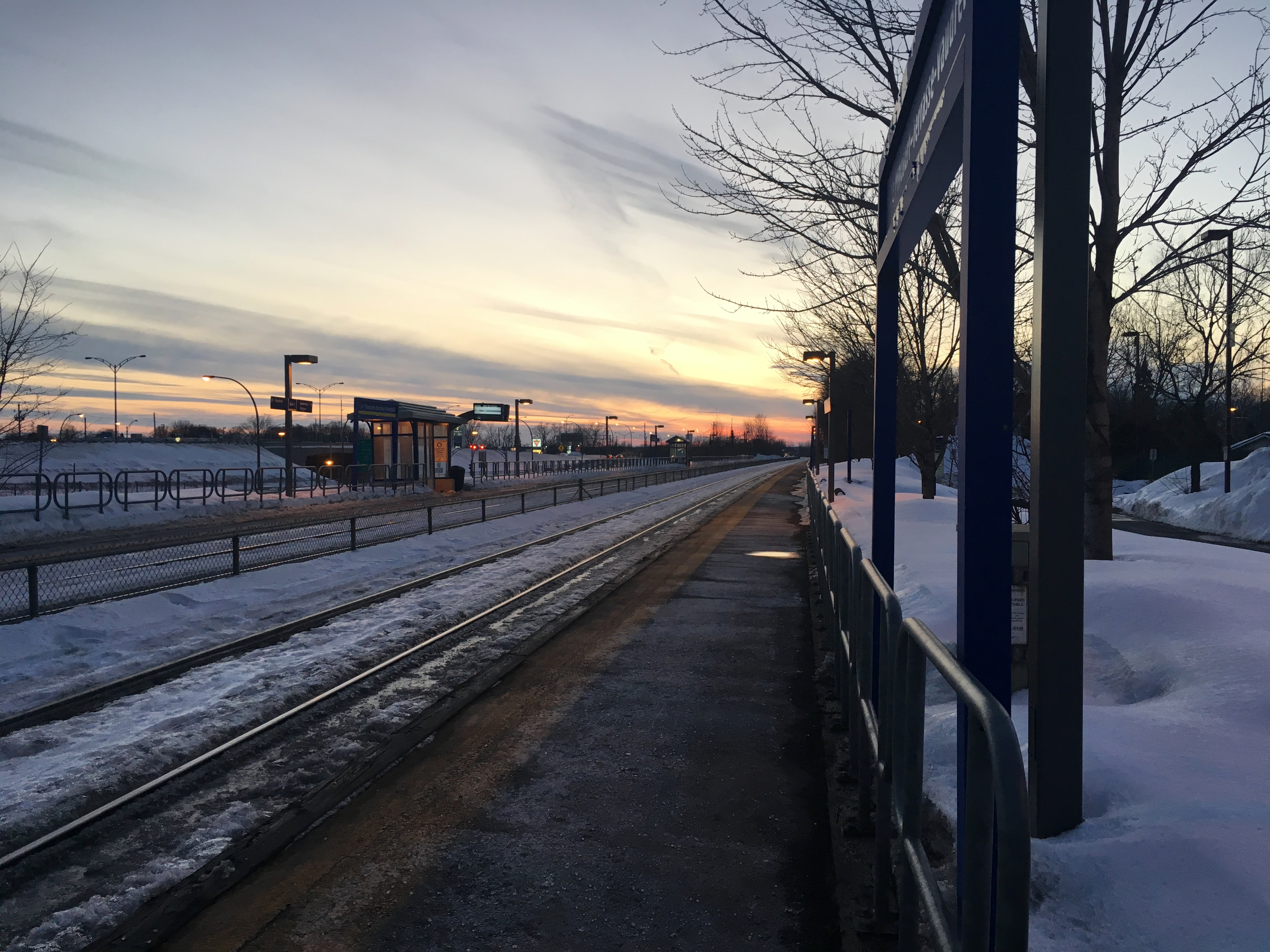 Picture of the Pincourt-Terasse-Vaudreuil exo train station